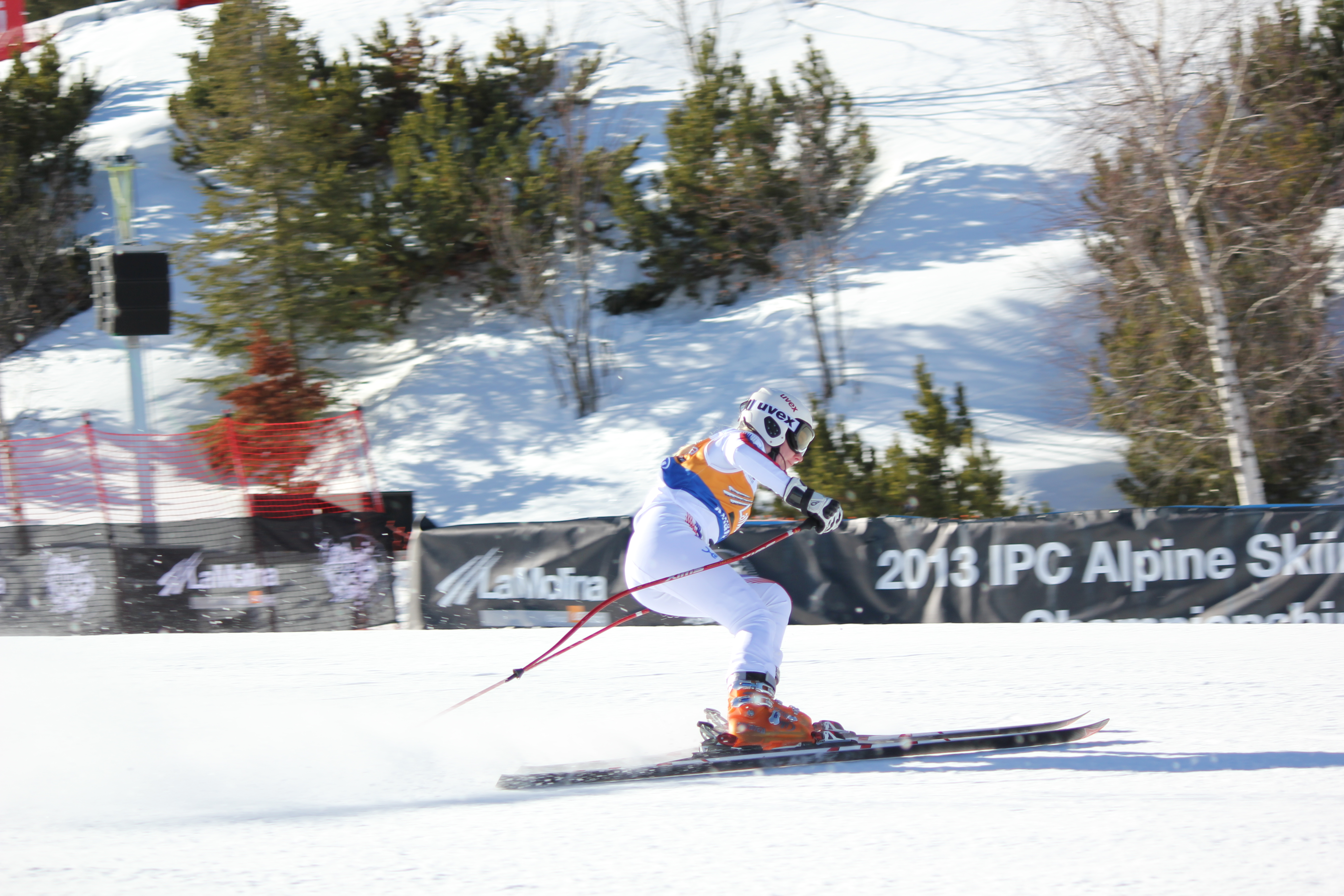 2013 IPC Alpine World Championships at La Molina in Spain. Day 1. Downhill final. Skier Alexandra Franseva and guide Pavel Zabotini. Alexandra Frantseva is B2 from Russia.